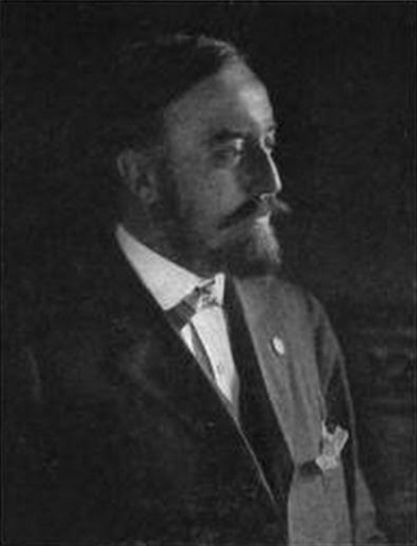 Circa 1915 portrait of New York architect Henry Hornbostel, known for his extensive work in Pittsburgh.